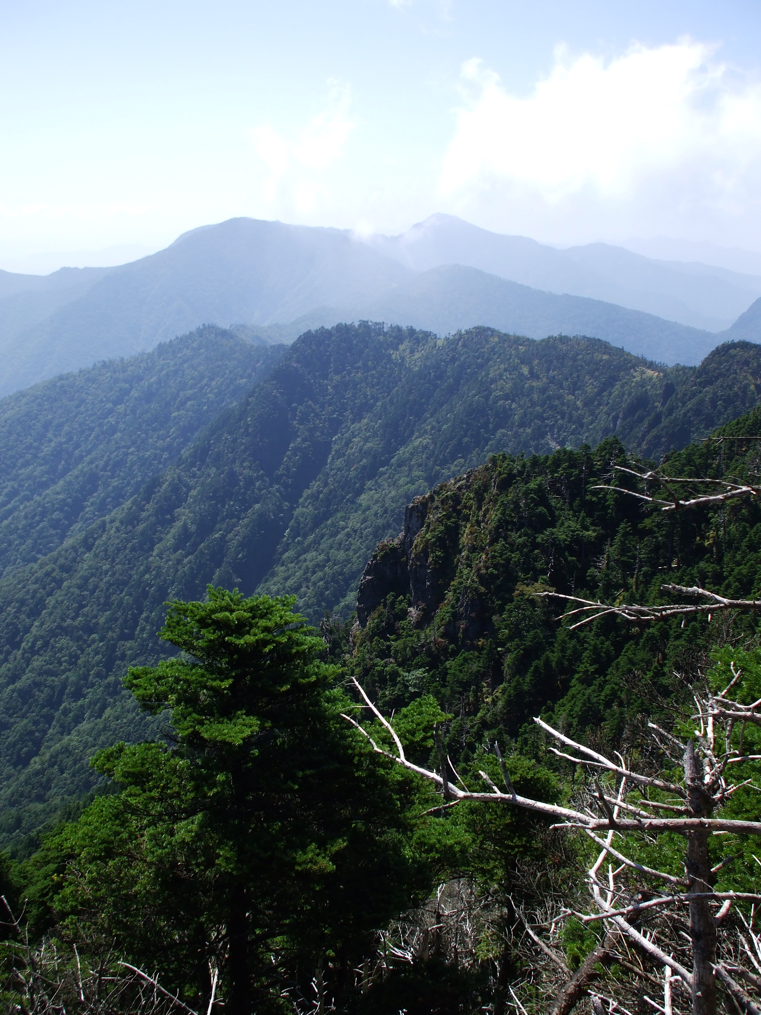 Mount Shaka of Omine Mountains, Nara, Honshu, Japan from Mount Hakkyo.